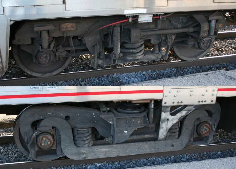 The two types of trucks found under Superliner cars. Top: a German design that, in North America, was only used with the original Superliner I cars. It was originally equipped with an air bag suspension system, but that system was soon found unsatisfactory and the bags were replaced with springs, as pictured here. Bottom: A General Steel Castings truck used with Superliner II cars. In Amtrak service, this type has also been used with Horizon cars, Viewliner cars, Surfliner and California cars, some Material Handling Cars (MHC II), and the original self-propelled Metroliner cars.